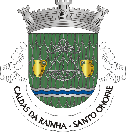 Coat of arms of Santo Onofre parish, Caldas da Rainha municipality (Portugal)